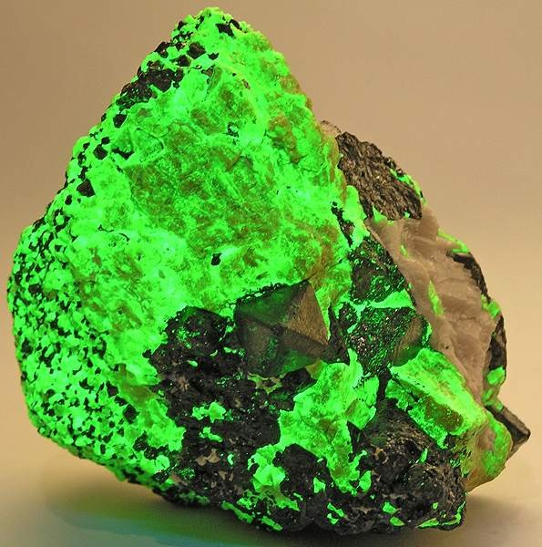 Franklinite, Willemite Locality: Franklin Mine, Franklin, Franklin Mining District, Sussex County, New Jersey, USA (Locality at ) Size: 10.8 x 8.2 x 6.8 cm. A textbook, classic, 1.5 cm, lustrous franklinite crystal with interesting beveled edges is perched on matrix of rose-tan willemite, innumerable smaller and broken franklinites and a bit of calcite. This is classic combination material from the Franklin Mine of New Jersey and the Marty Zinn Collection, # 8499. The willemite has a superb green fluorescense. The calcite fluoresces a more muted red, in this instance.